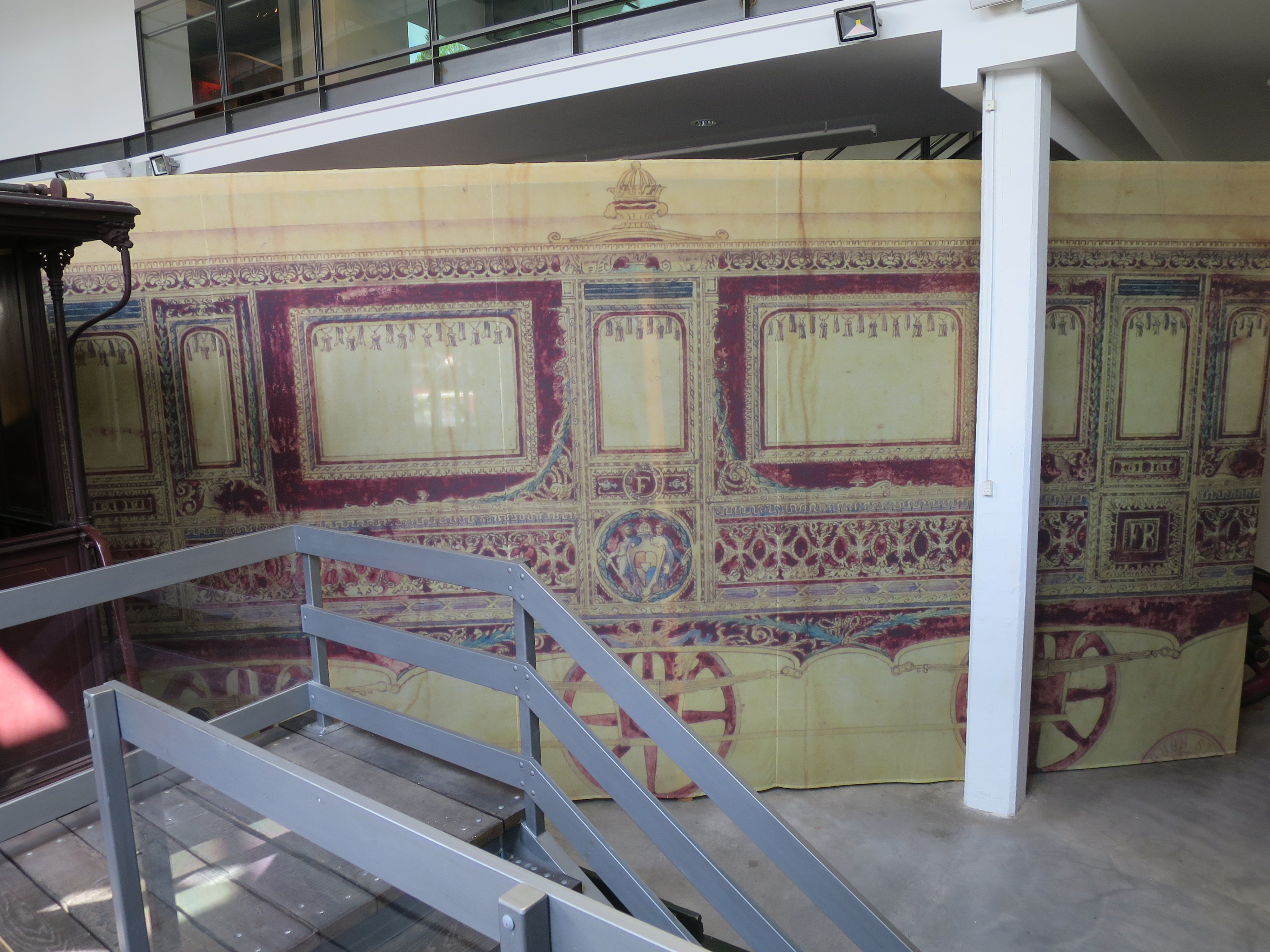 Royal Salon for the Danish king on Schleswig railways